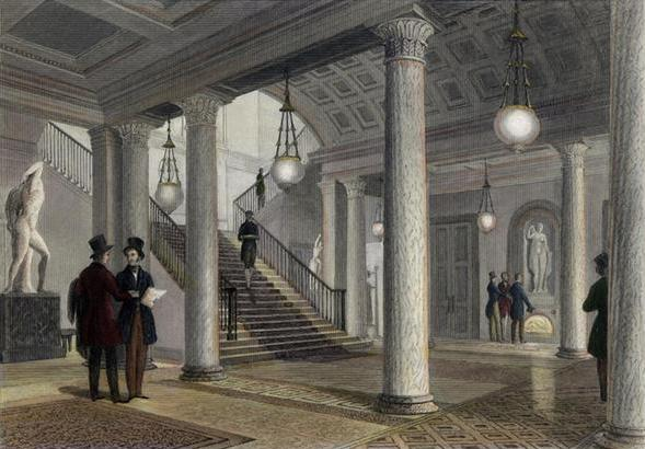 The hall of the Atheneum c.1845. Engraved by W.Radclyffe after a drawing by G.B. Moore. Artist: George B. Moore (1806-1875)